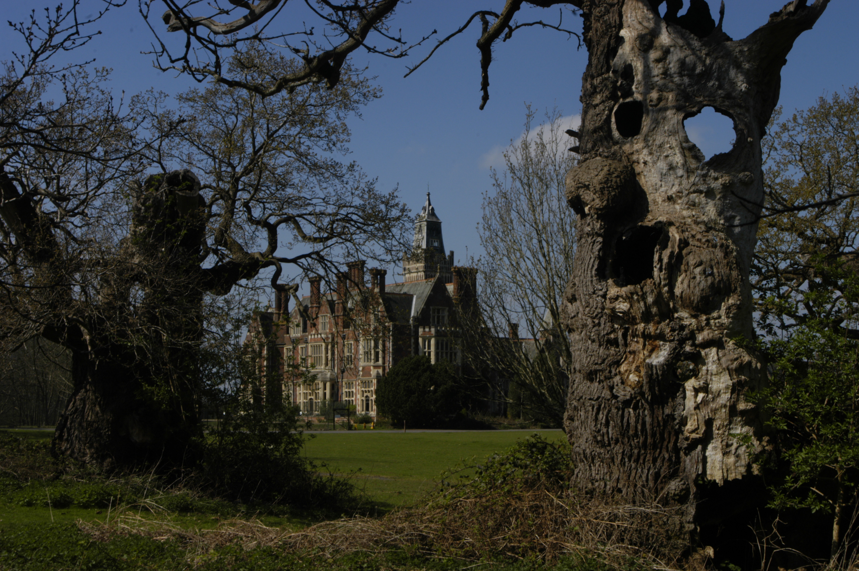 Ancient pollard oak in derelict wood pasture, April 2017, Aldermaston court.